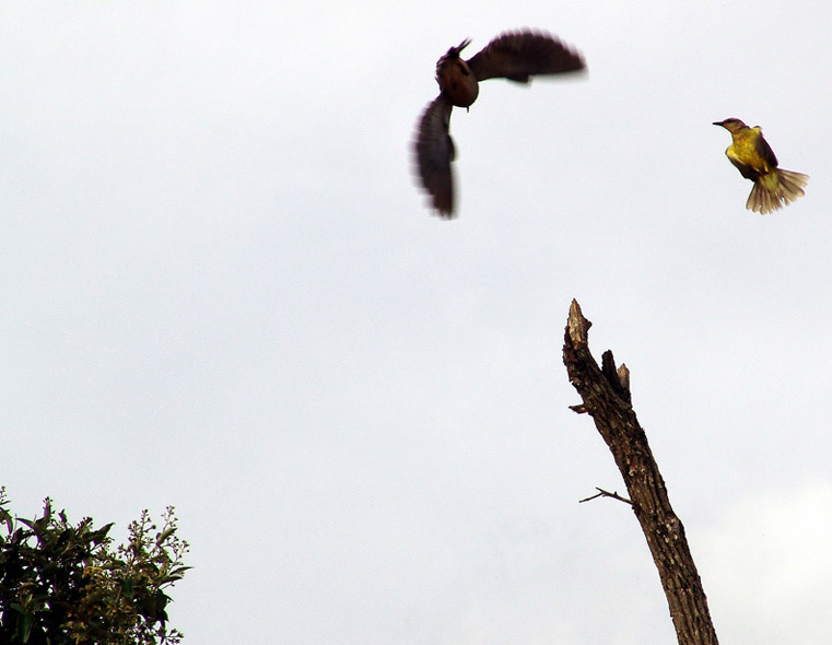 A Great Kiskadee (right) mobs a hawk in Avaré (Brazil).